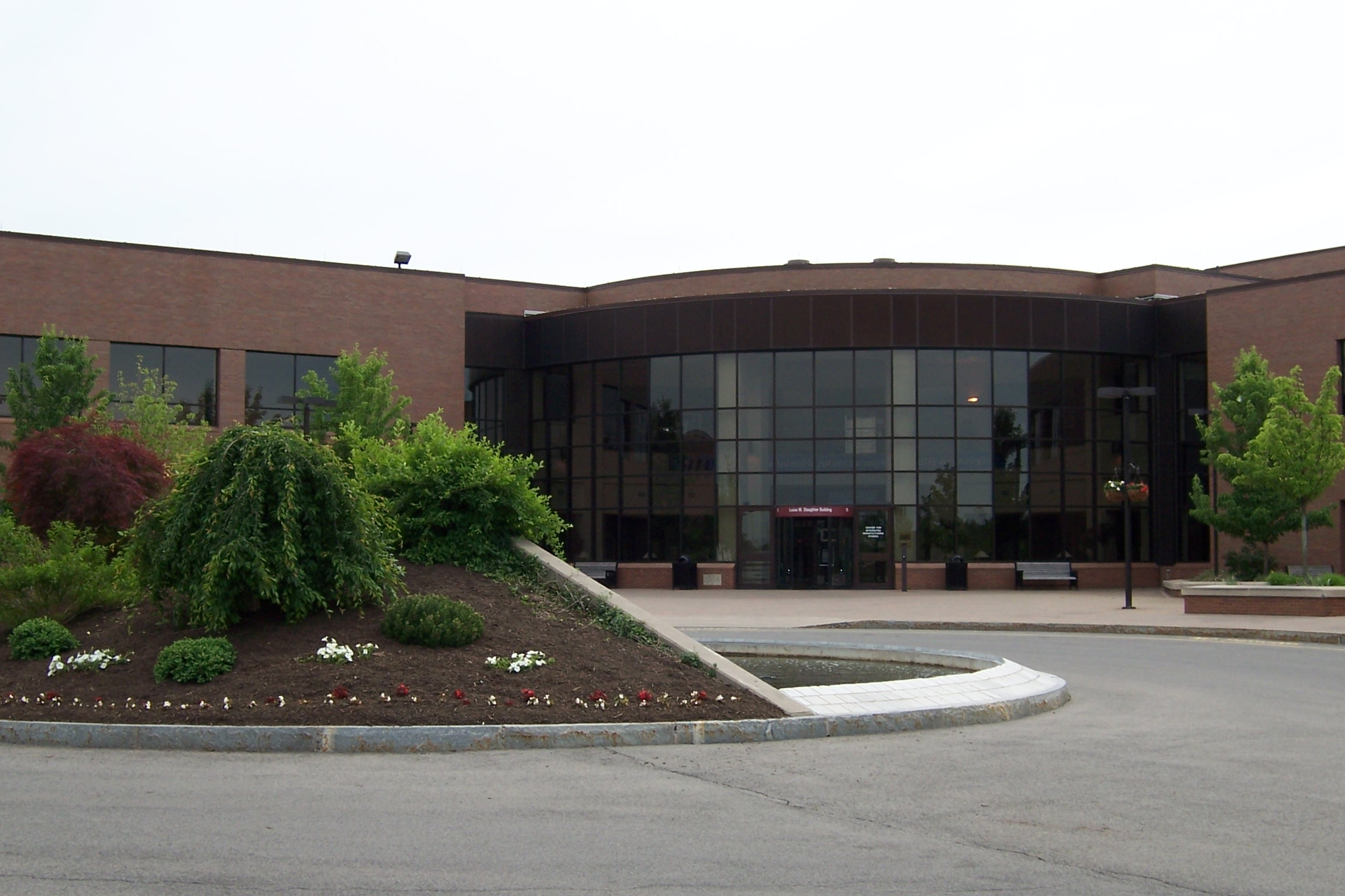 The Louise Slaughter Center for Integrated Manufacturing Study on the RIT campus, building 78. U.S. Representative Louise M. Slaughter (D-Fairport) has been instrumental in supporting CIMS and RIT by helping to secure federal funding, both for the building itself and for the research activities of CIMS.